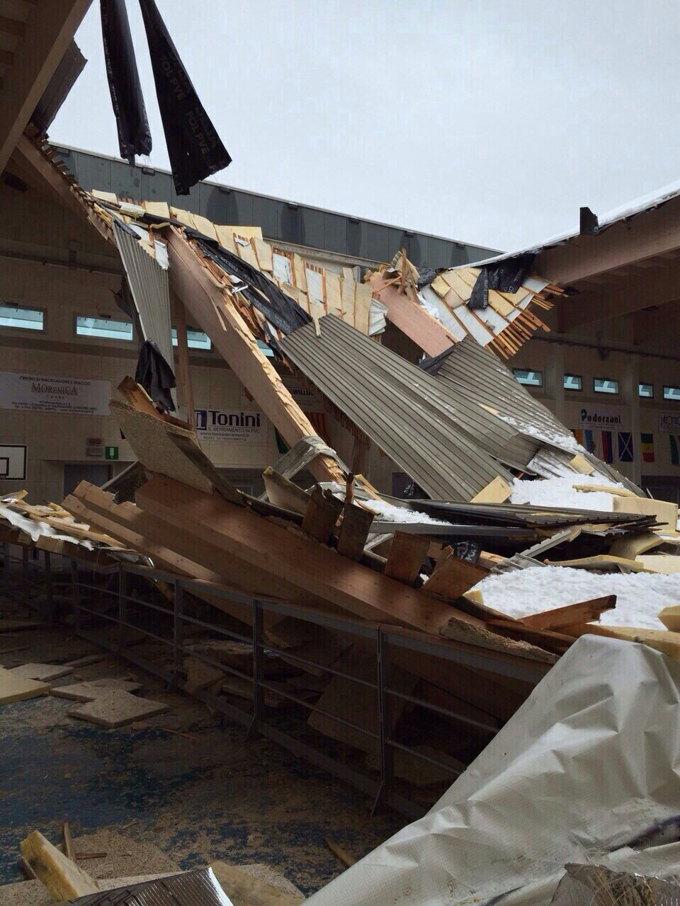 Palazzetto dello Sport Castelgoffredo Crollo tetto